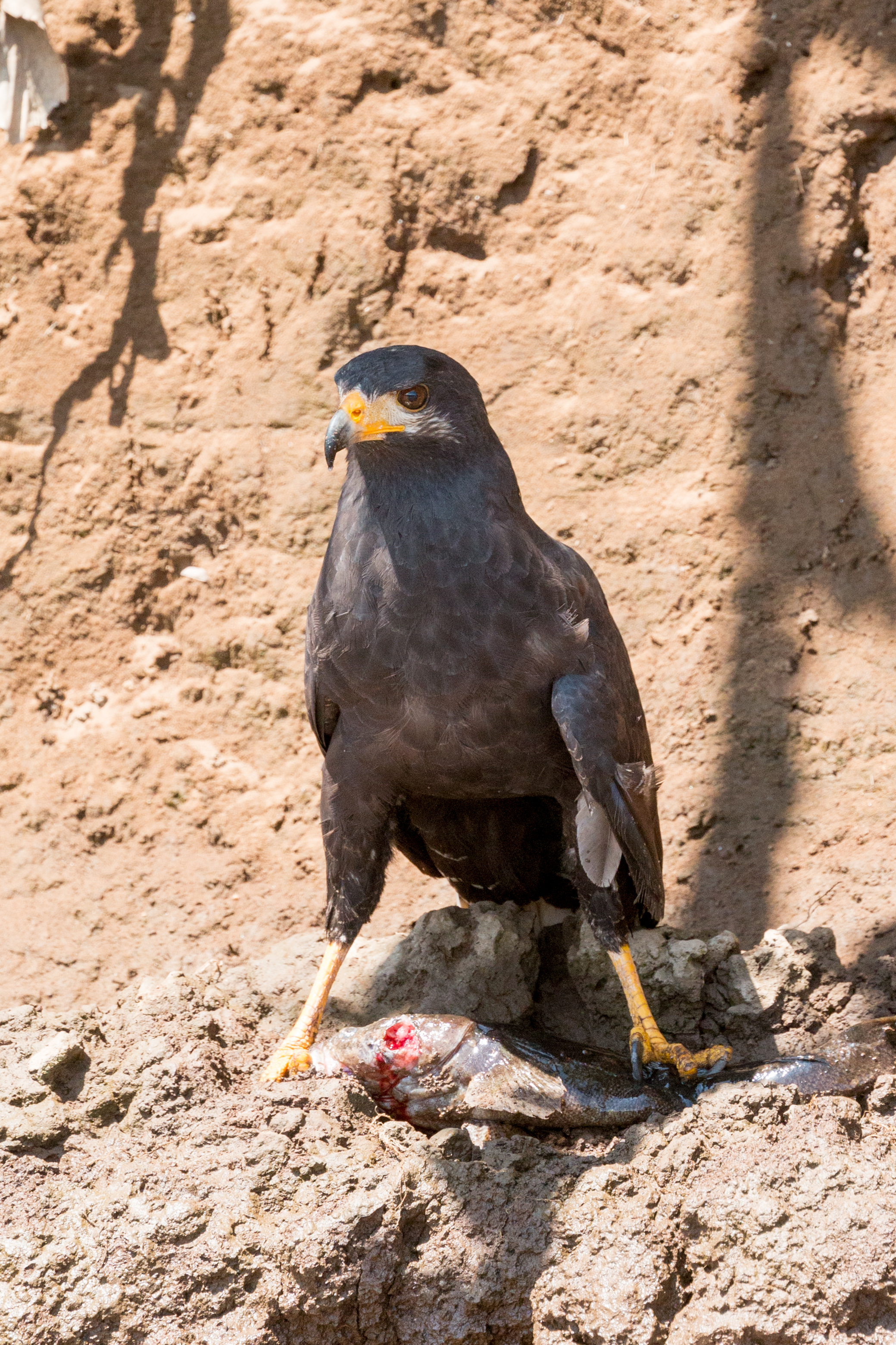 Stay away from my lunch, silly people! [Continuing to post bird photos from my February trip to Costa Rica; this is from our boat tour on the Tarcoles river.]